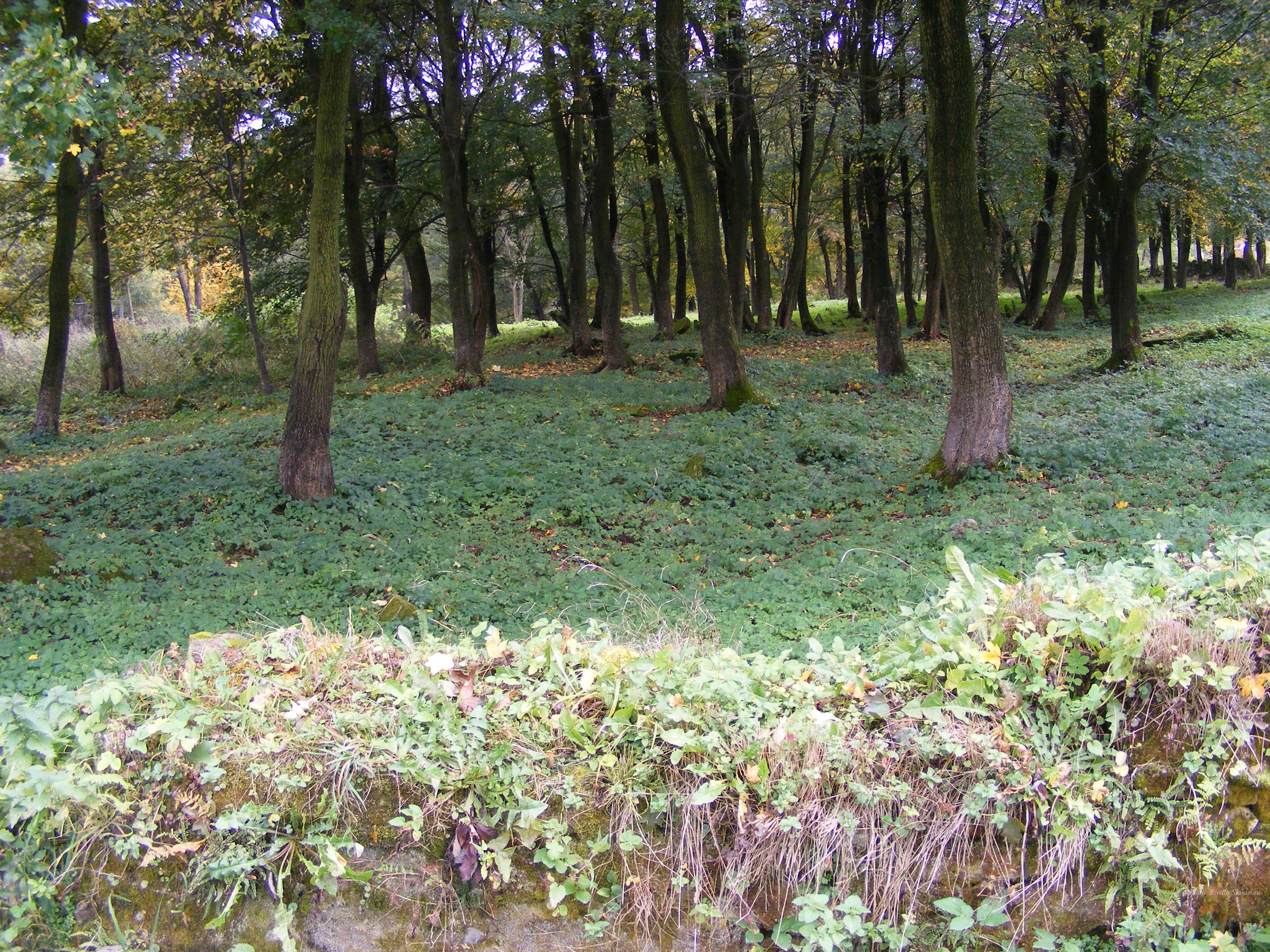 Old Jewish Cemetery in Dukla